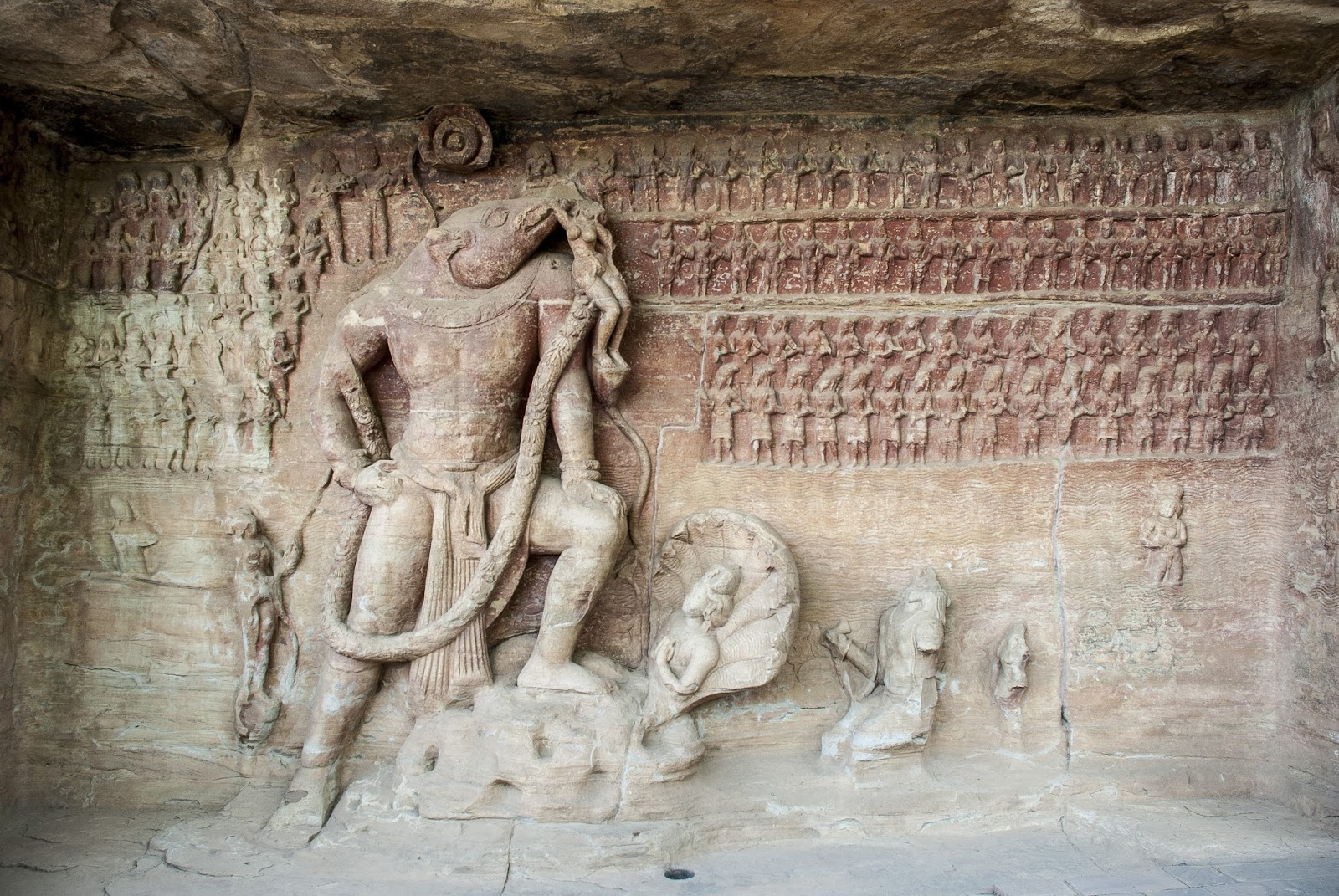 good location